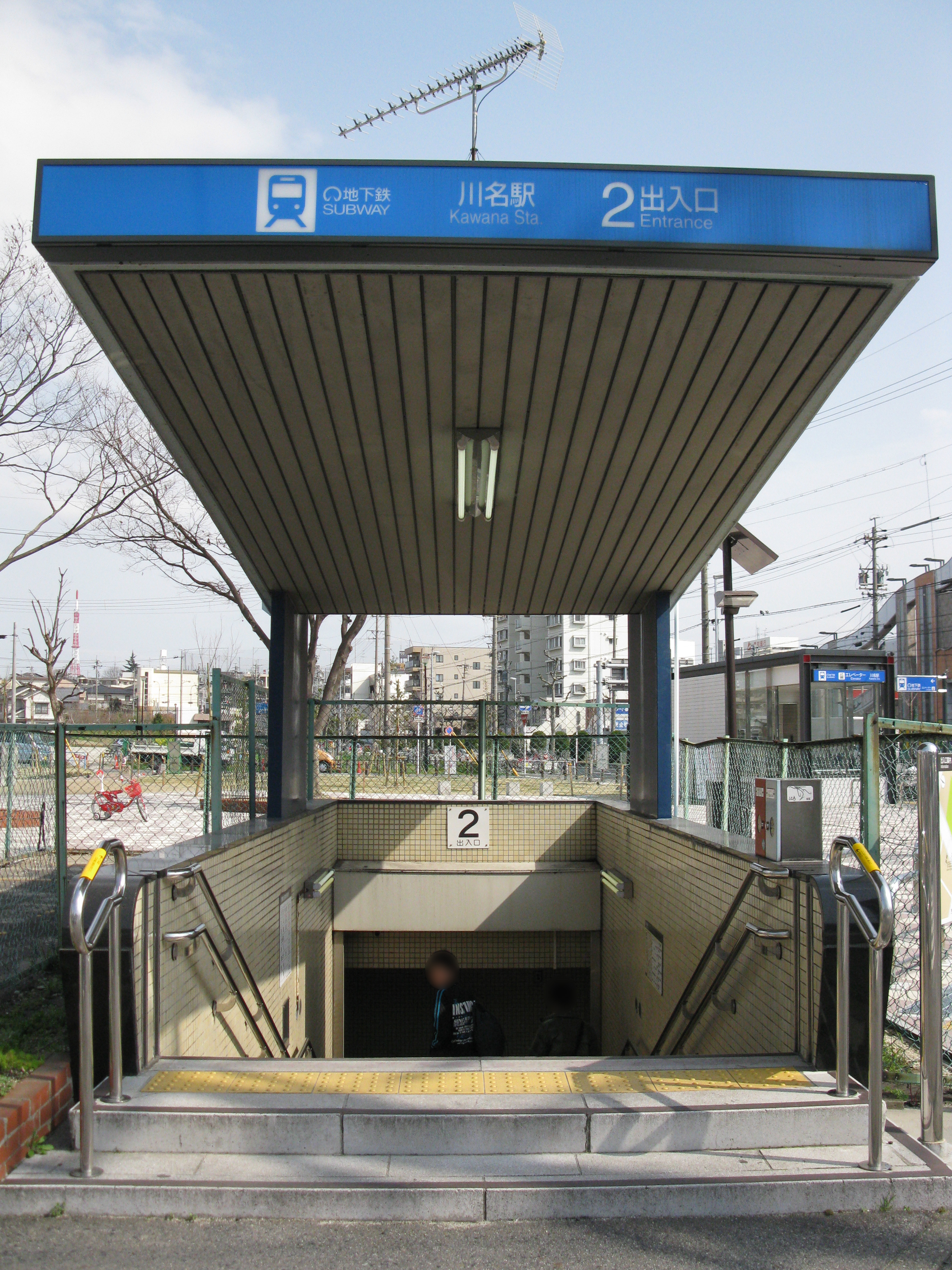 Kawana Station no.2 entrance (Nagoya Municipal Subway Tsurumai Line)